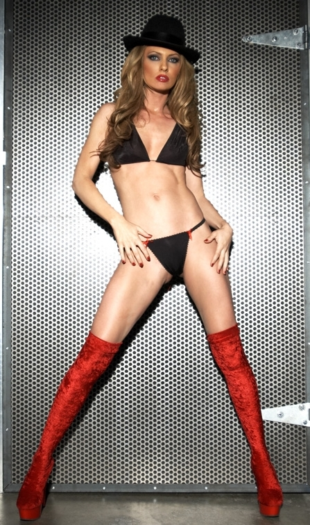 British actress Kelle Marie.